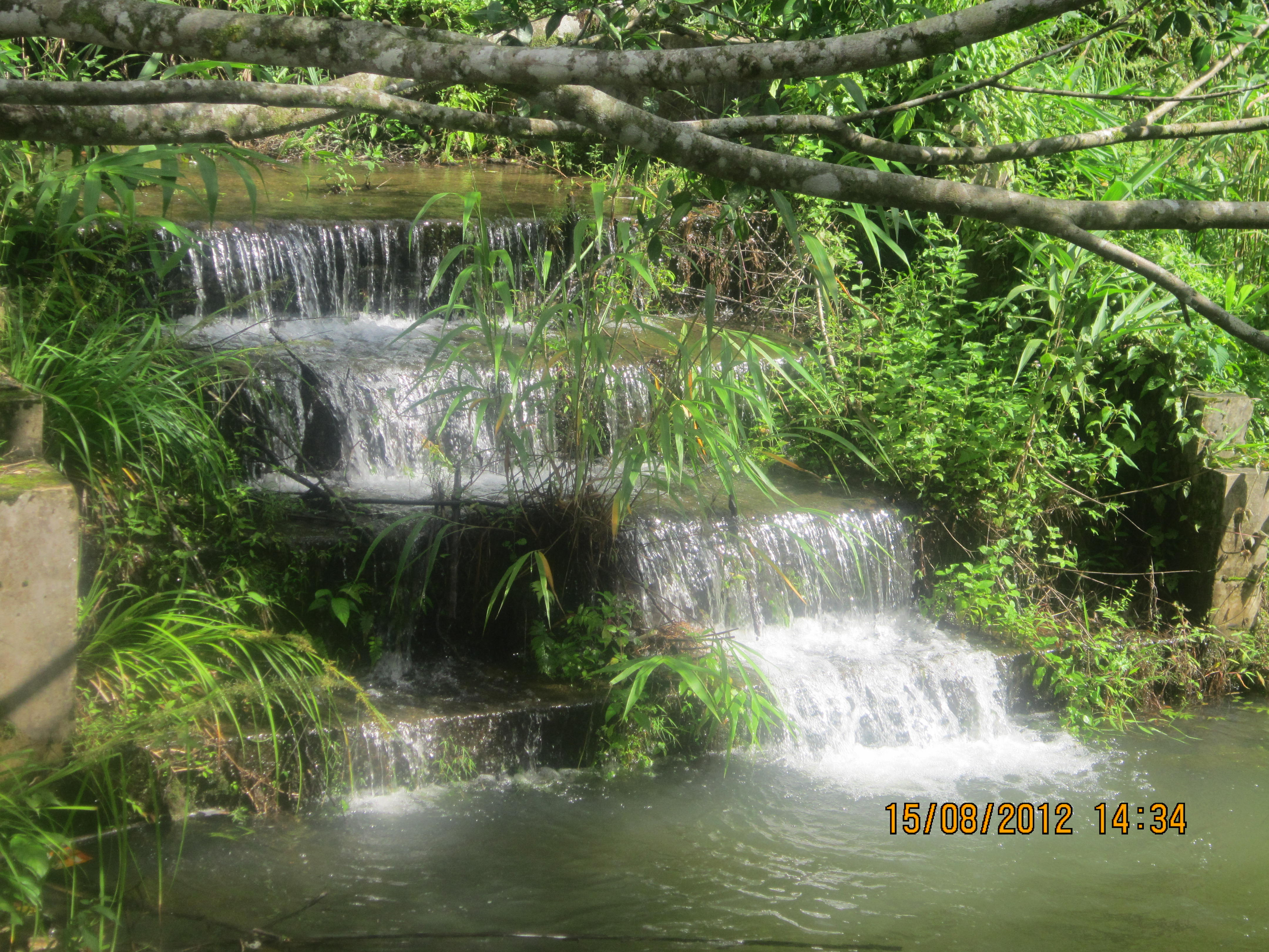 (c) Krishna C. Avatar